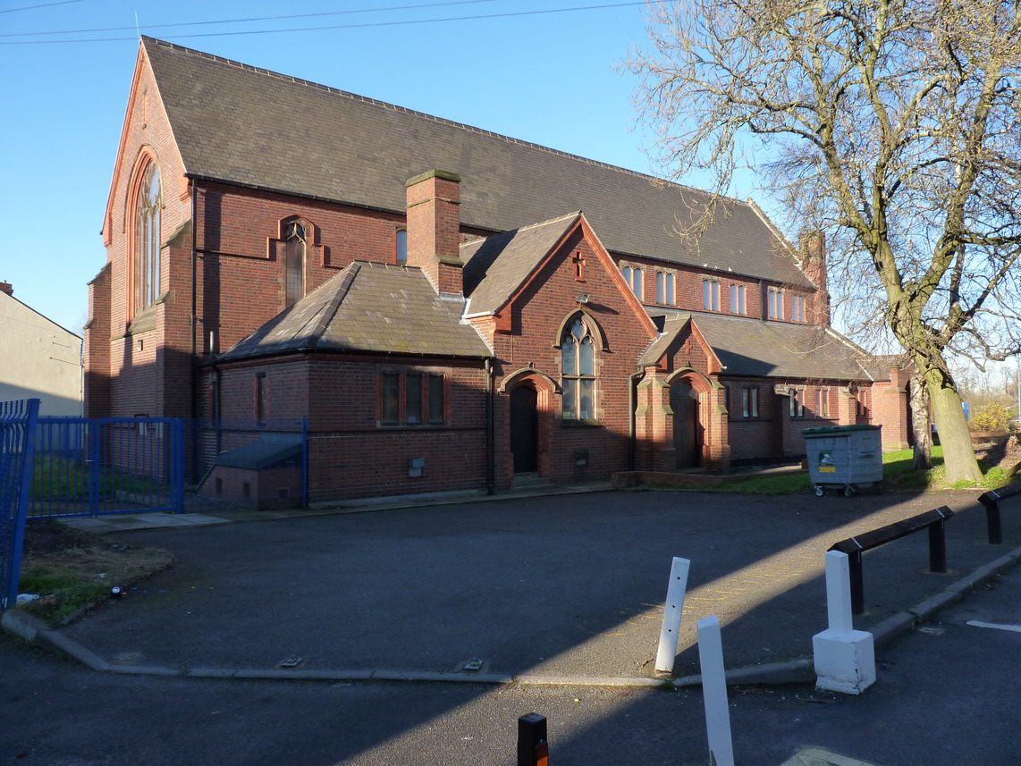 St Andrew's church, CTYPE html PUBLIC "-//W3C//DTD XHTML 1.0 Strict//EN" " St Andrew's church:: OS grid SO9991 :: Geograph Britain and Ireland - photograph every grid square! Geograph - photograph every grid square SO9991 : St Andrew's church near to West Bromwich, Sandwell, Great Britain.